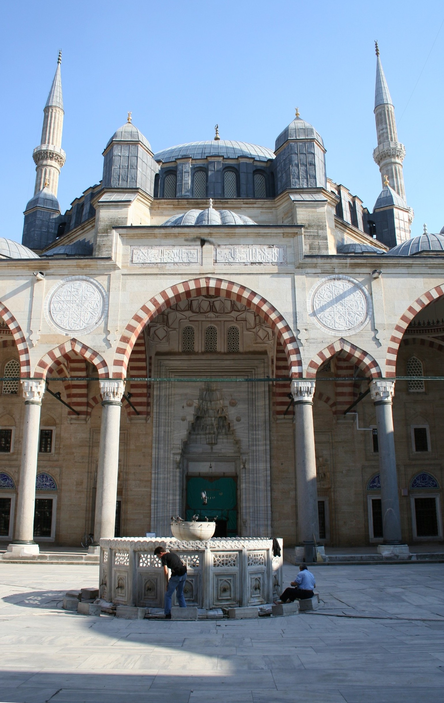 Interior courtyard of Selimiye Mosque.